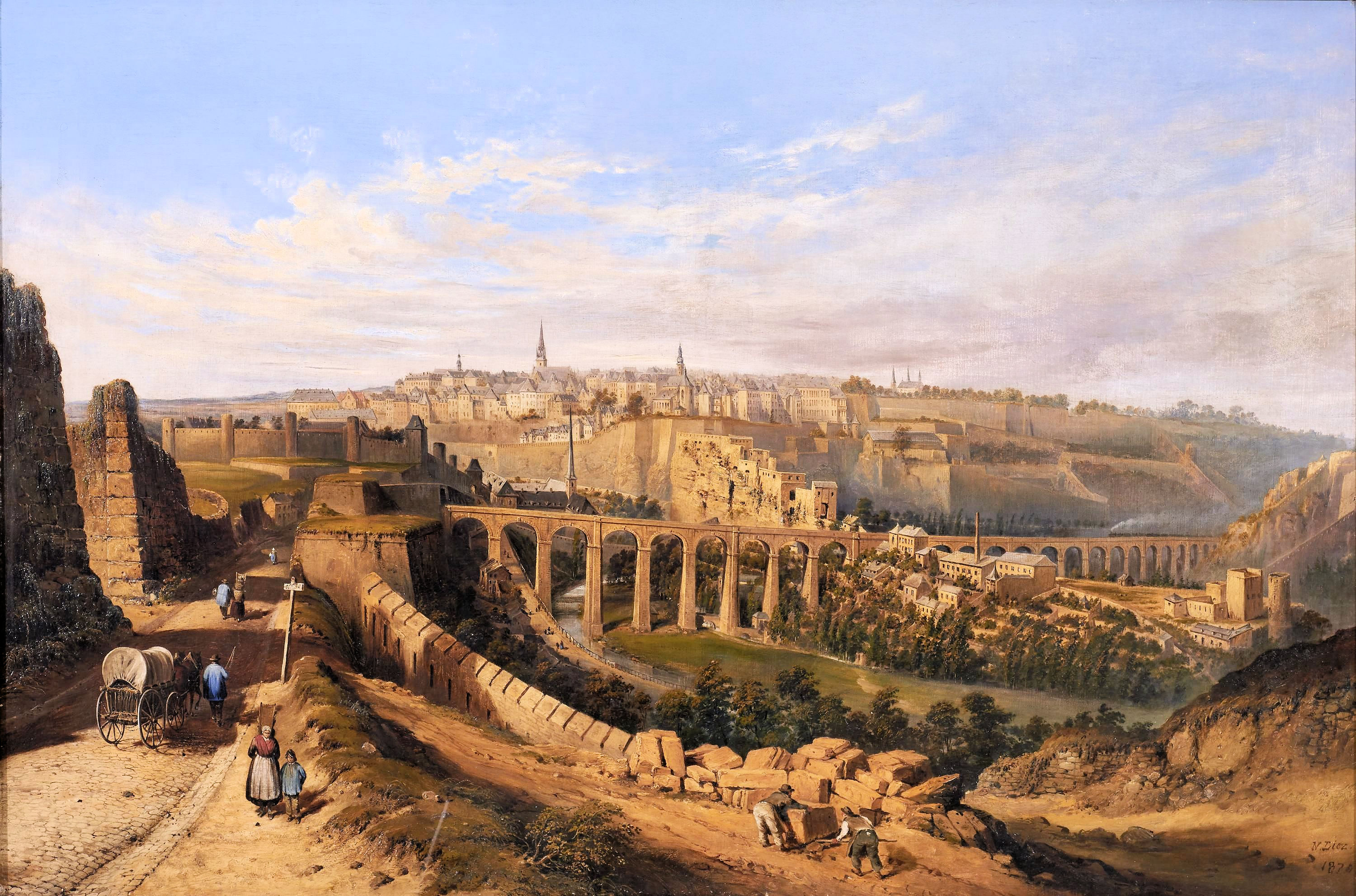 Nicolas Liez:Vue de la ville de Luxembourg depuis le Fetschenhof1870MNHA, Luxembourg